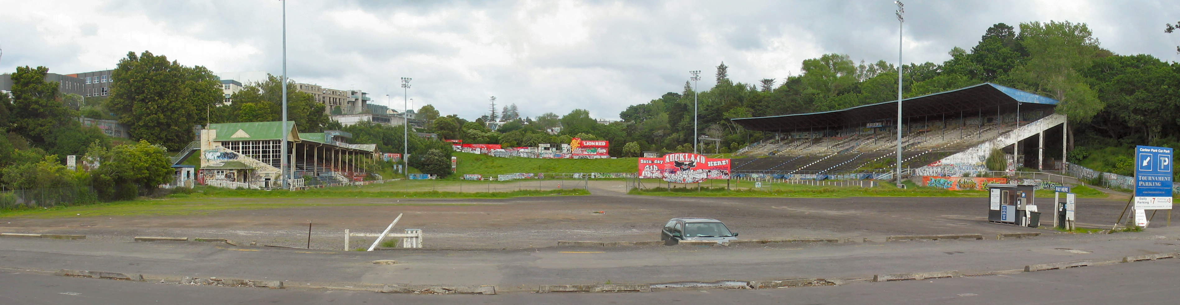 Carlaw Park, a former Rugby League park in Auckland New Zealand, now used as a carpark.